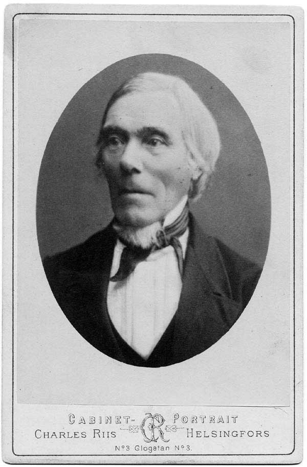 Finnish physician and philologist Elias Lönnrot (1802—1884)